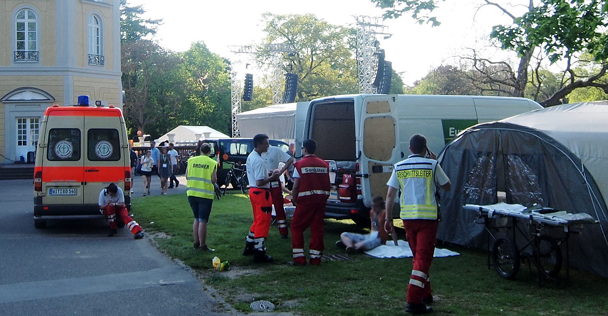 Paramedics in Germany, emergency service in stand-by duty at an outdoor youth convention